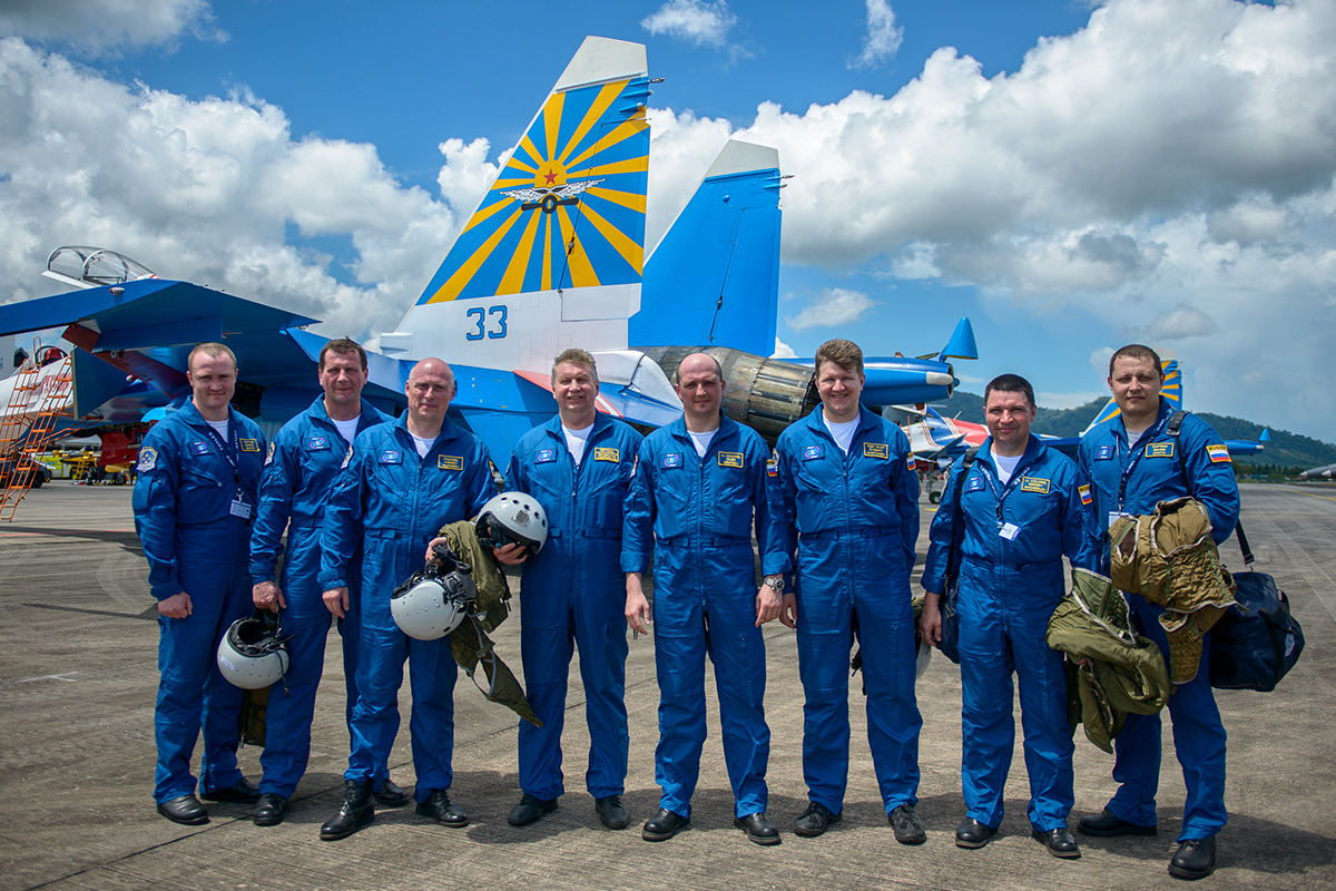 Aerobatic demonstration team "Russian Knights" at opening of the international exhibition LIMA'2017. Malaysia, 21 Mart 2017.